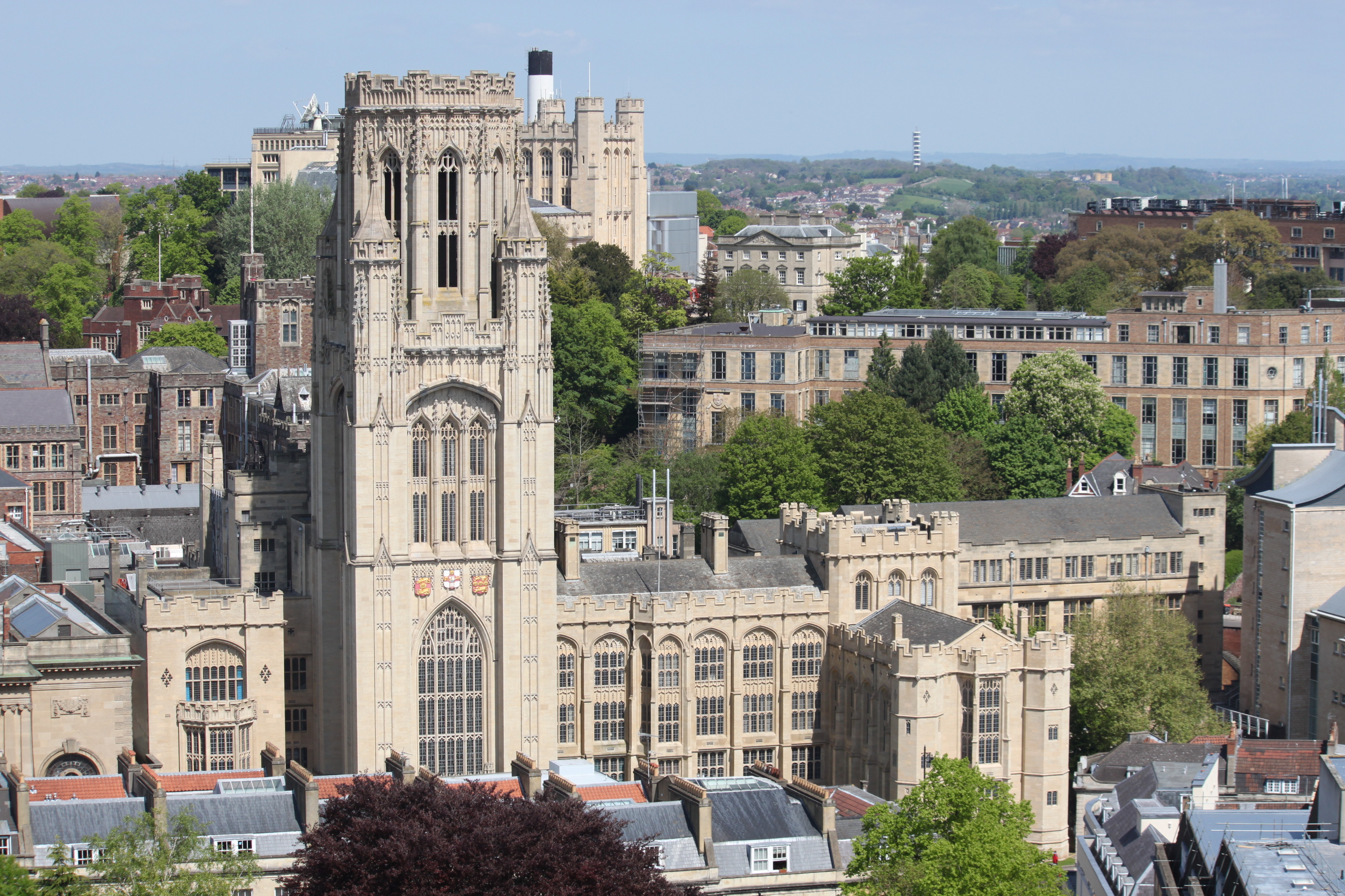 The Wills Memorial Building of the University of Bristol, taken from Cabot Tower